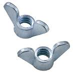 Cast Iron Wing Nuts